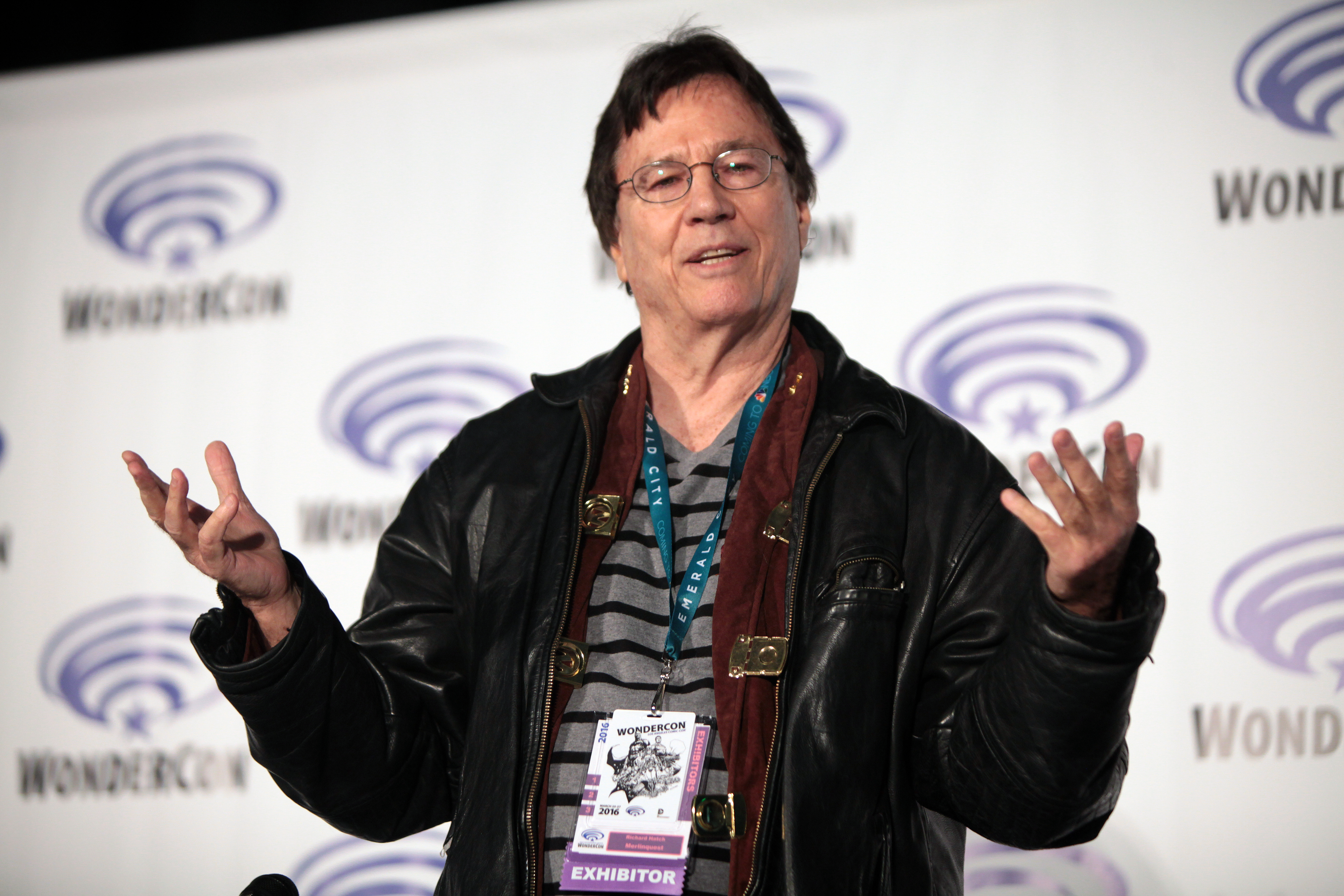 Richard Hatch speaking at the 2016 WonderCon in Los Angeles, California.